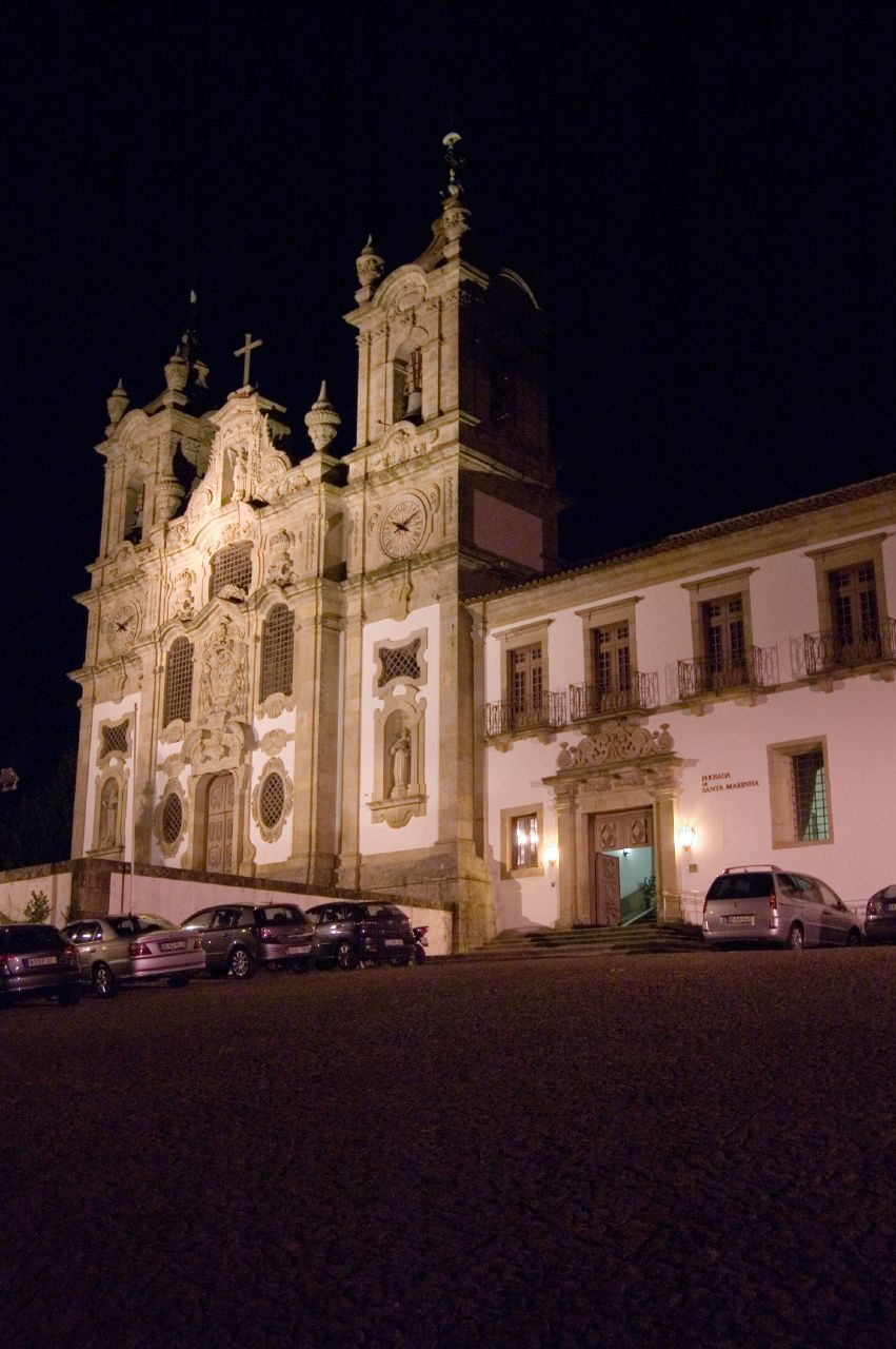 Monastery of Santa Marinha da Costa, presentently serving as Hostel.